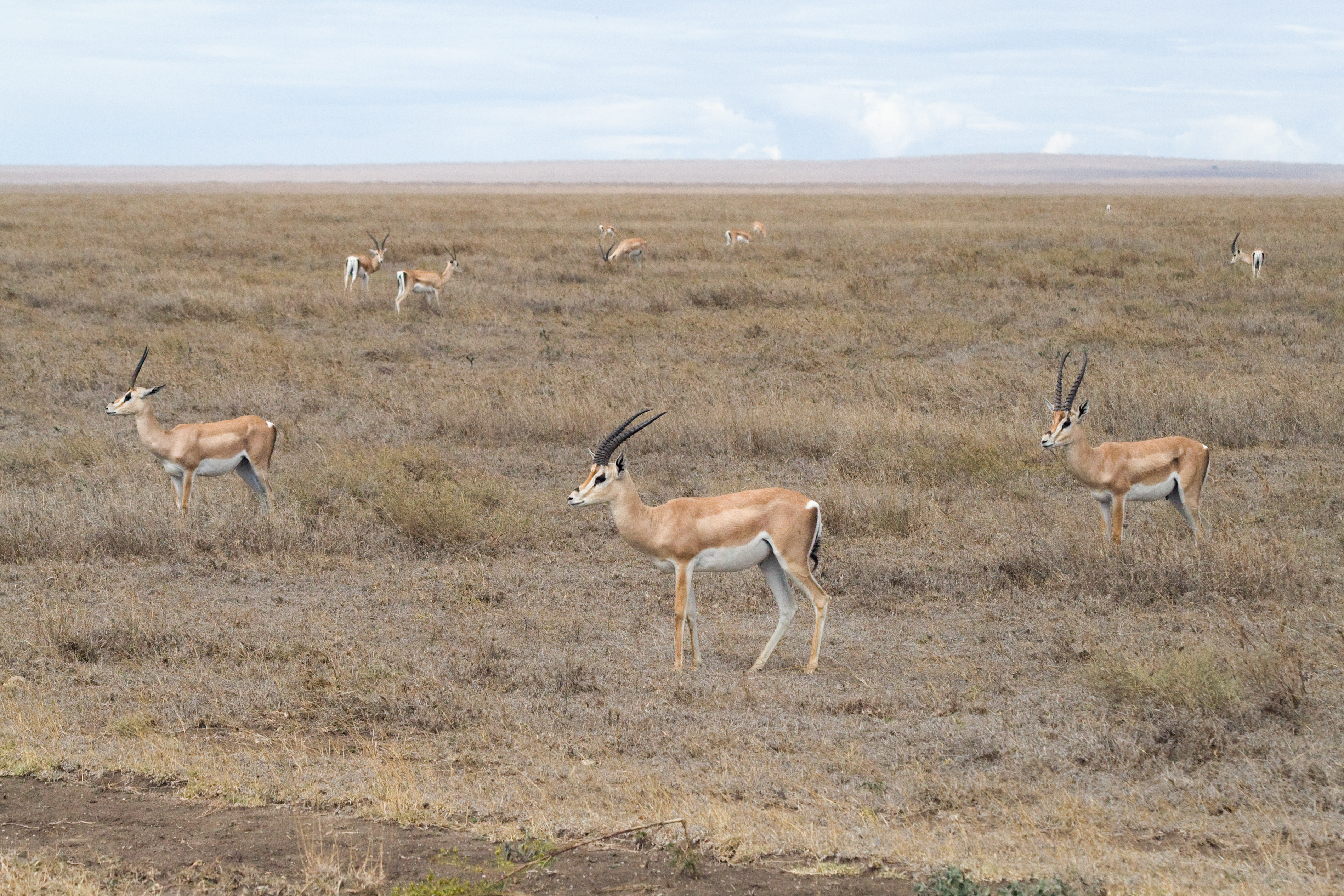 (This photo by mistake taken with IS0 1600 setting)